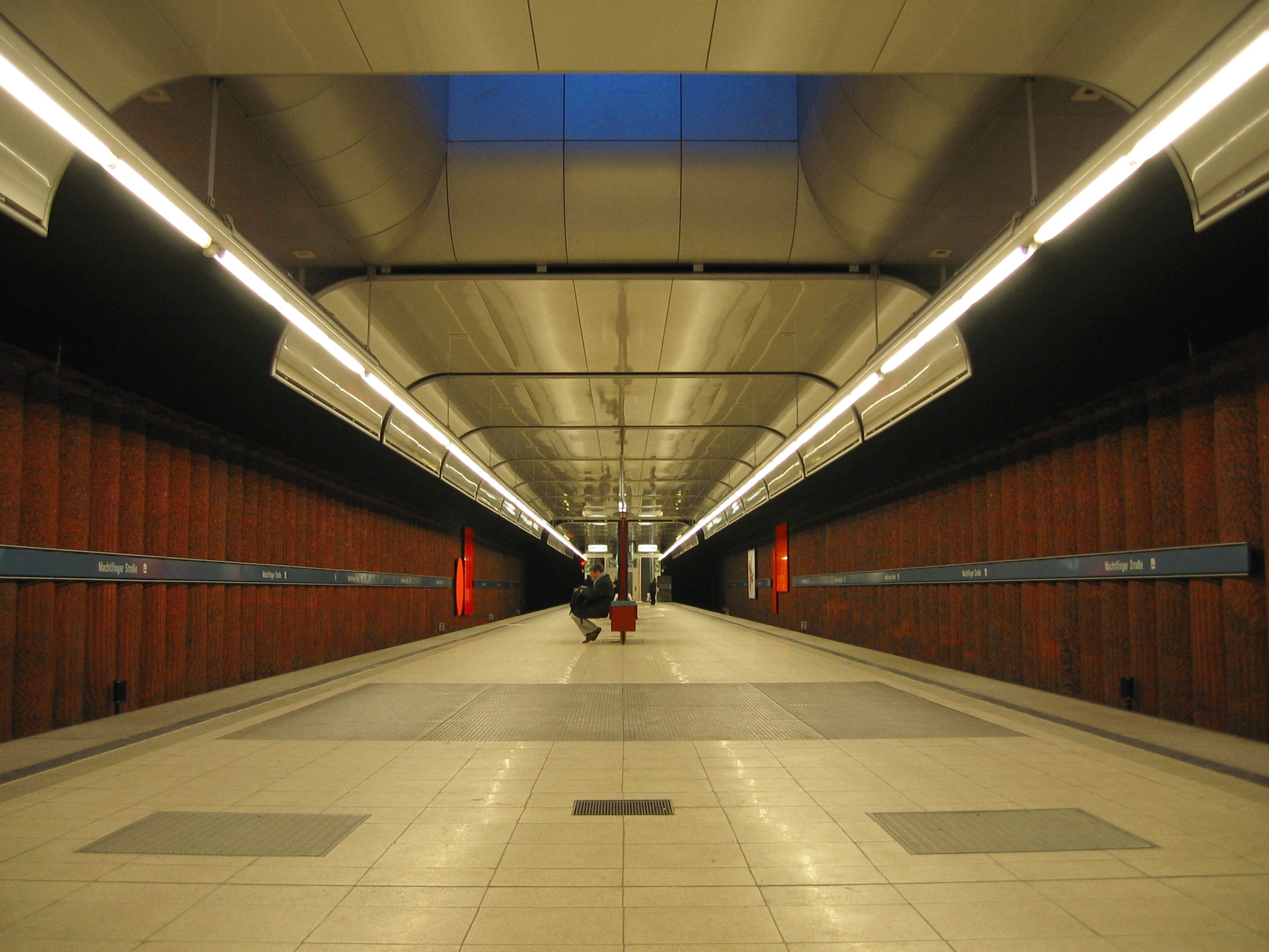 Munich subway station Machtlfinger Straße (line U3). Designed by the painter and sculptor Rupprecht Geiger.